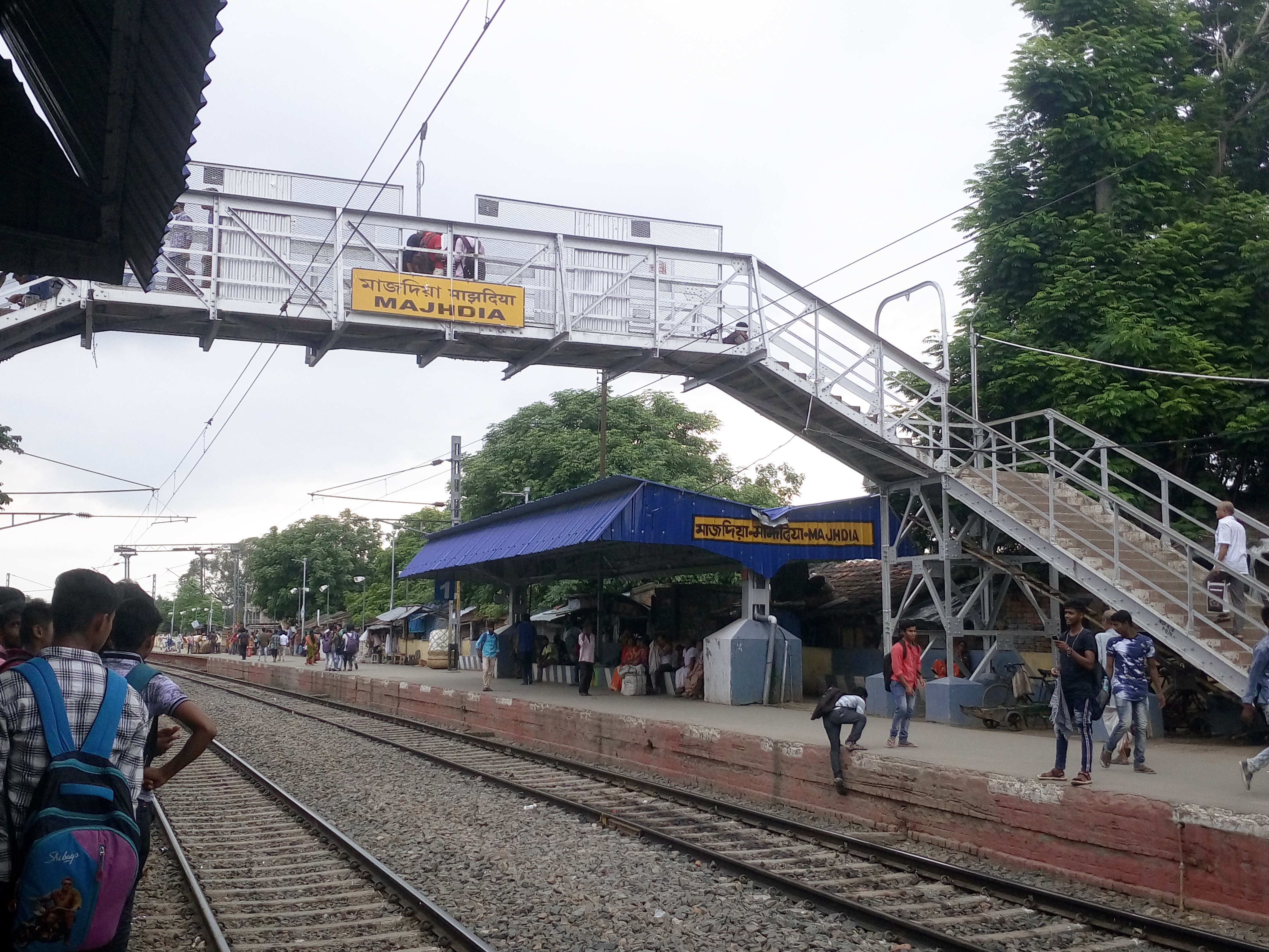 Majhdia railway station on the Ranaghat–Gede line, Majhdia, Nadia